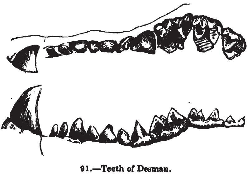 Dentition of a Russian desman